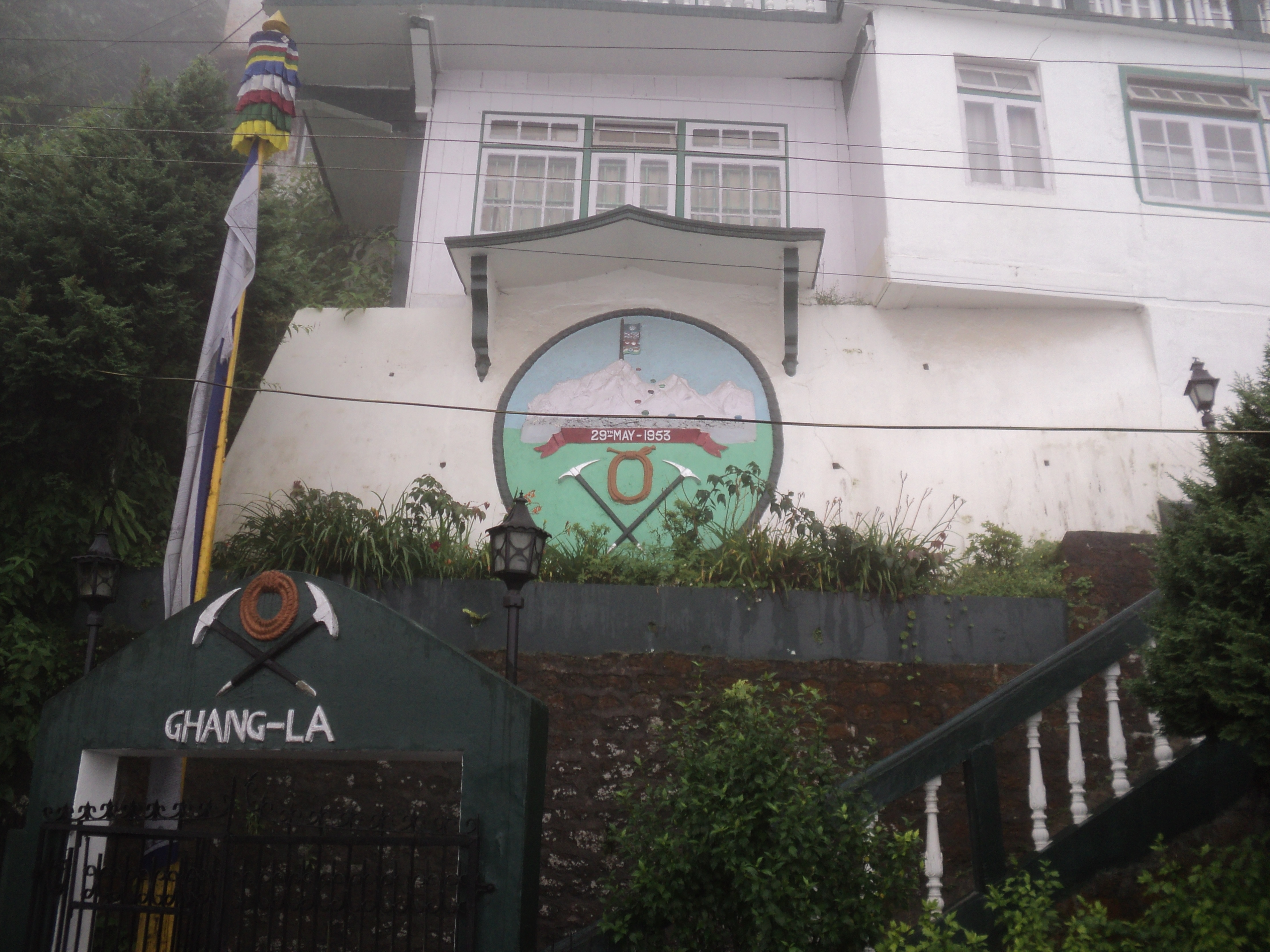 House Tenzing Norgey lived in Darjeeling in last years